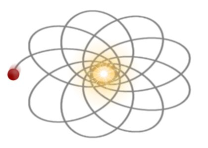 Stylized and exaggerated picture of the precession of the orbit of a planet around the sun.